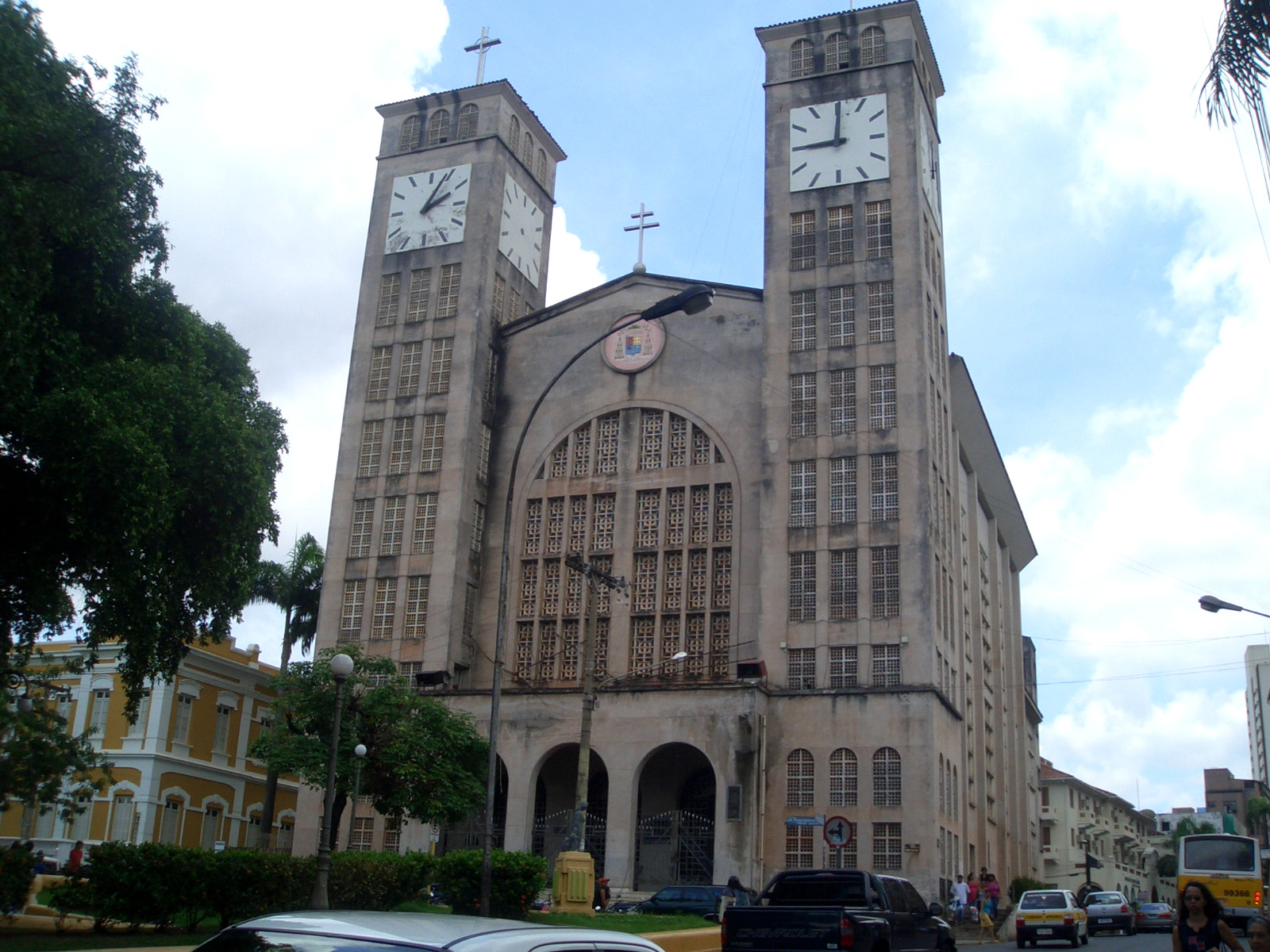 Metropolitan Cathedral in Cuiabá.